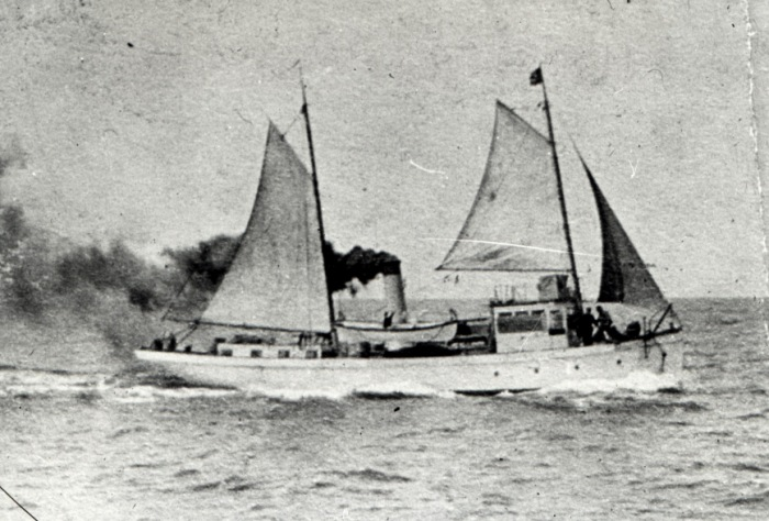 United States Coast and Geodetic Survey survey ship USC&GS Yukon under steam and sail.